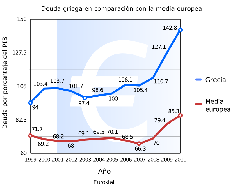 Greece's recent debt history, between 1999 and 2010. NB: This file will not be updated anymore due to troubles with converting to svg. Use the png file below (see other versions) for the latest graphs.